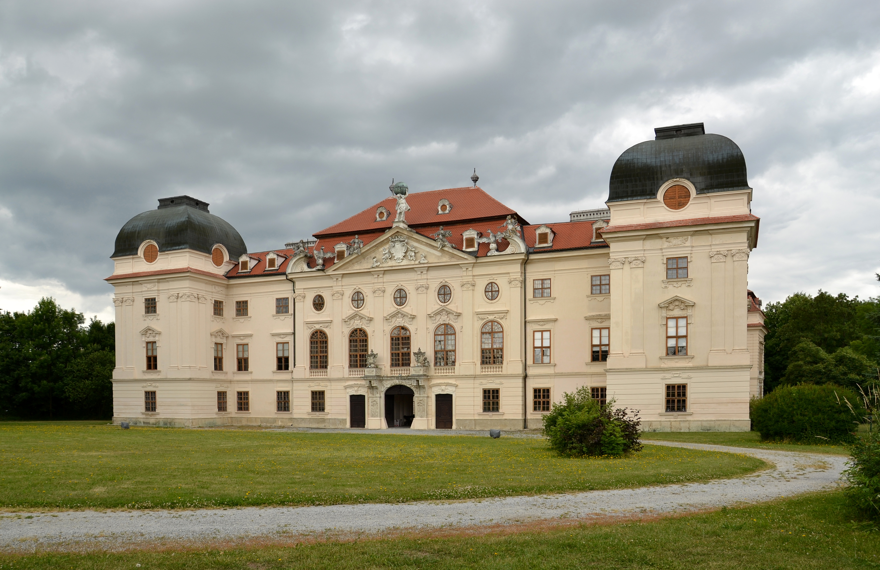 Palace Riegersburg, Hardegg, Lower Austria